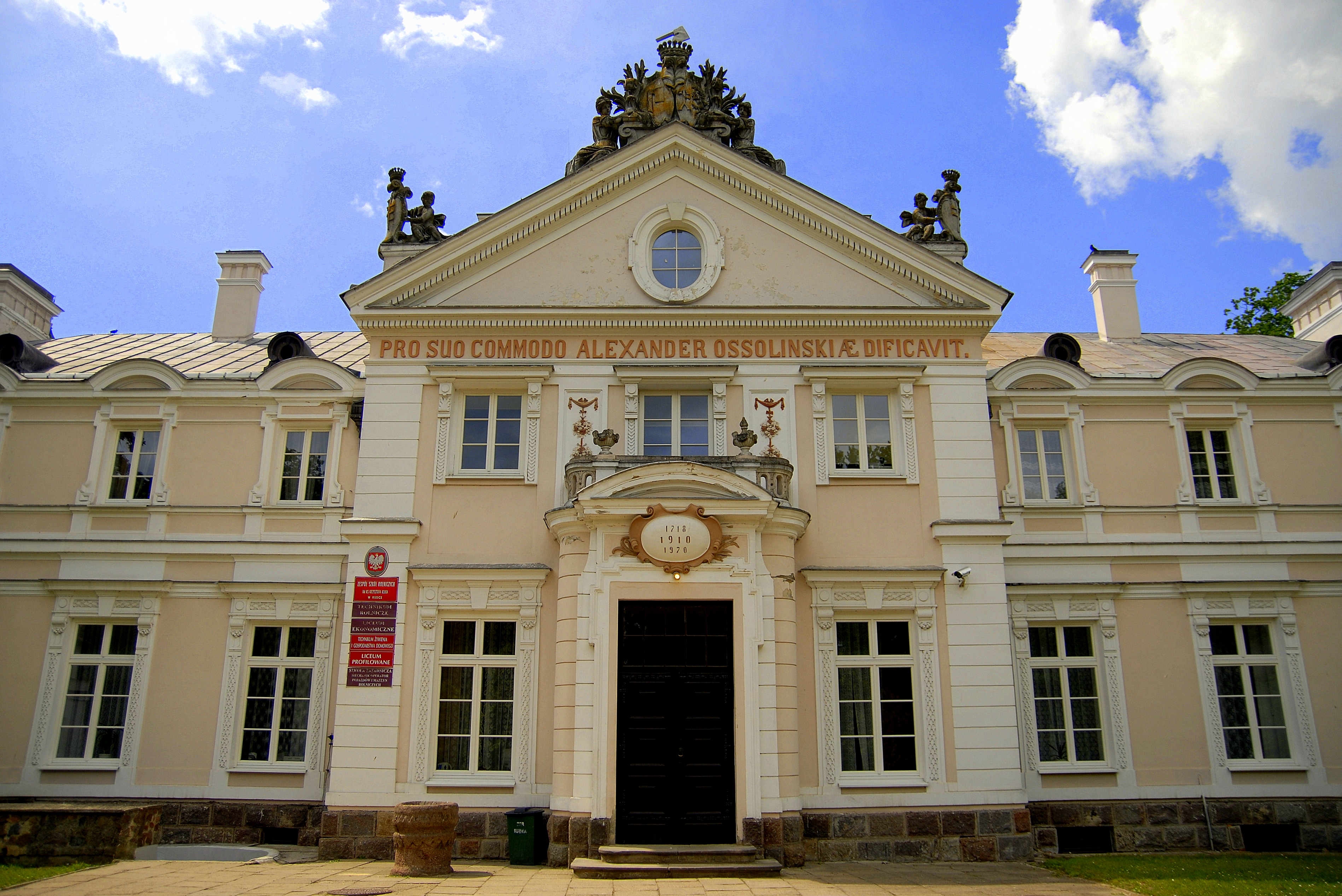 The Ossoliński Palace in Rudka (Poland)